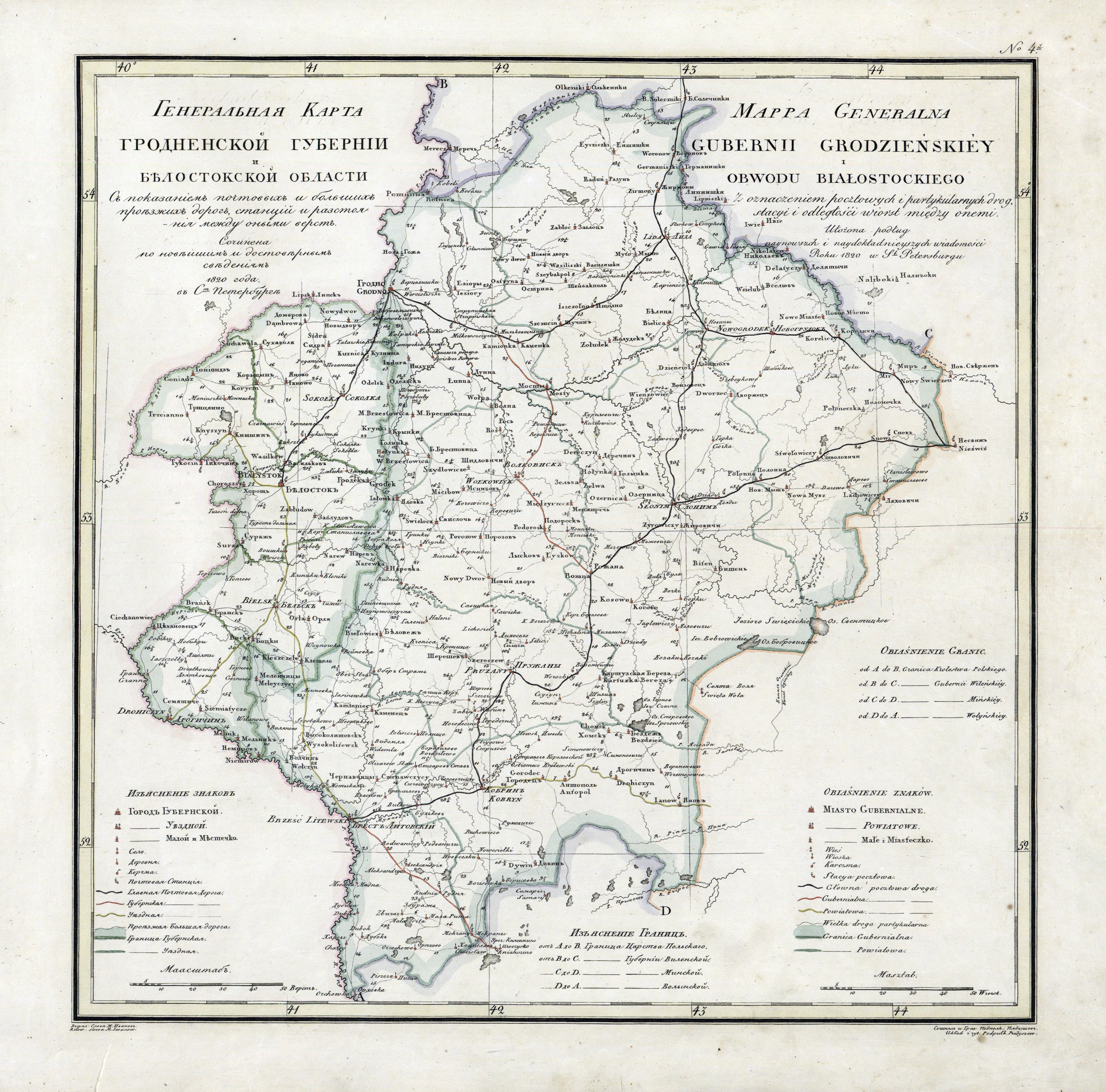 Geographic atlas of the Russian Empire, Kingdom of Poland and Grand Duchy of Finland is located in governorates in the Russian and French. 1821.